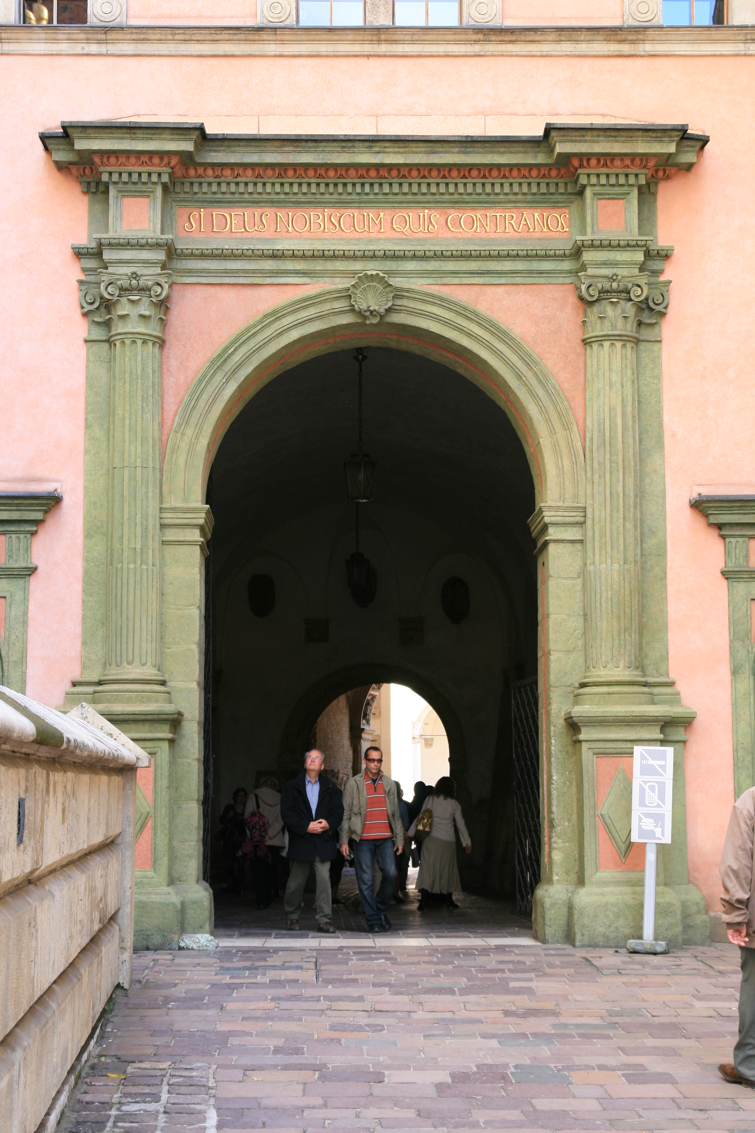 Gate to Wawel Castle in Kraków (Poland).